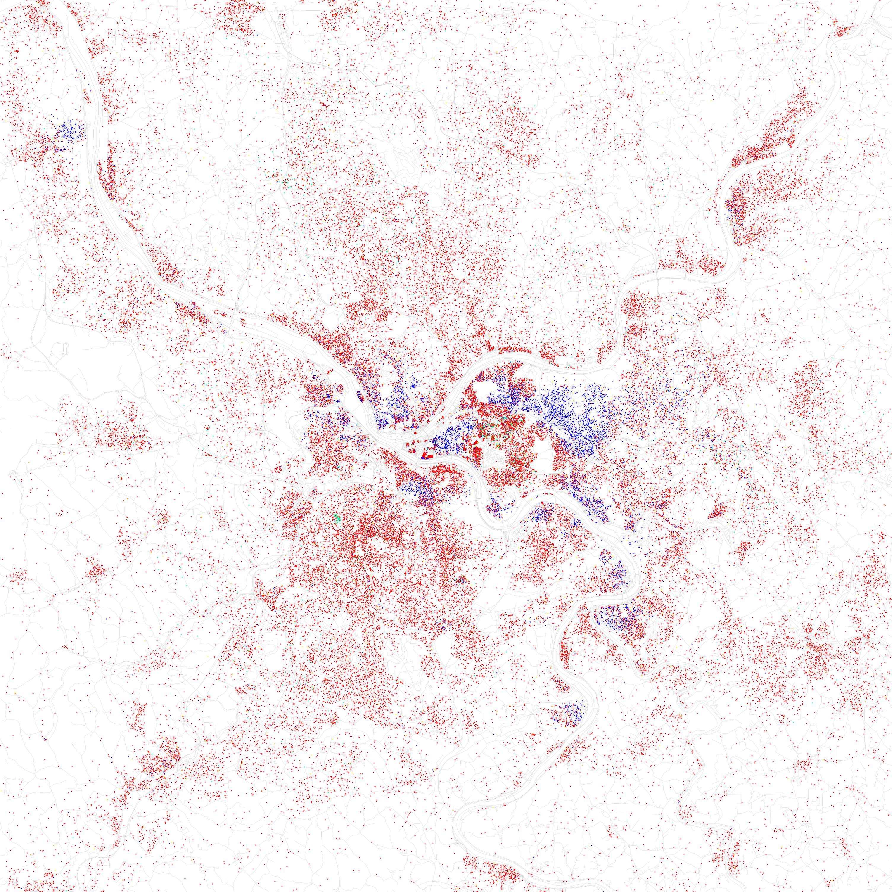 Maps of racial and ethnic divisions in US cities, inspired by Bill Rankin's map of Chicago, updated for Census 2010. Red is White, Blue is Black, Green is Asian, Orange is Hispanic, Yellow is Other, and each dot is 25 residents. Data from Census 2010. Base map © OpenStreetMap, CC-BY-SA